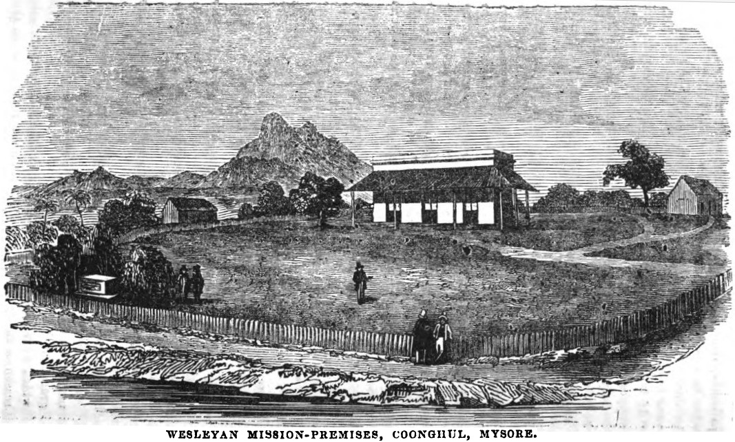 Wesleyan-Mission Premises, Coonghul, Mysore (VII, p.129, October 1850)